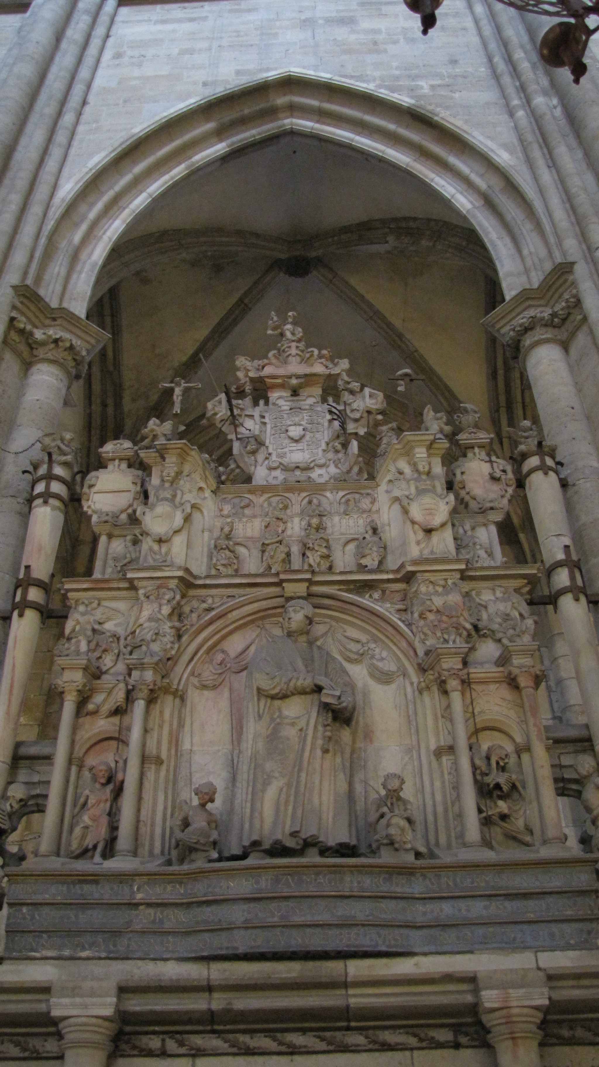 Epitaph for bishop Friedrich von Brandenburg (1530–1552) in Halberstadt cathedral